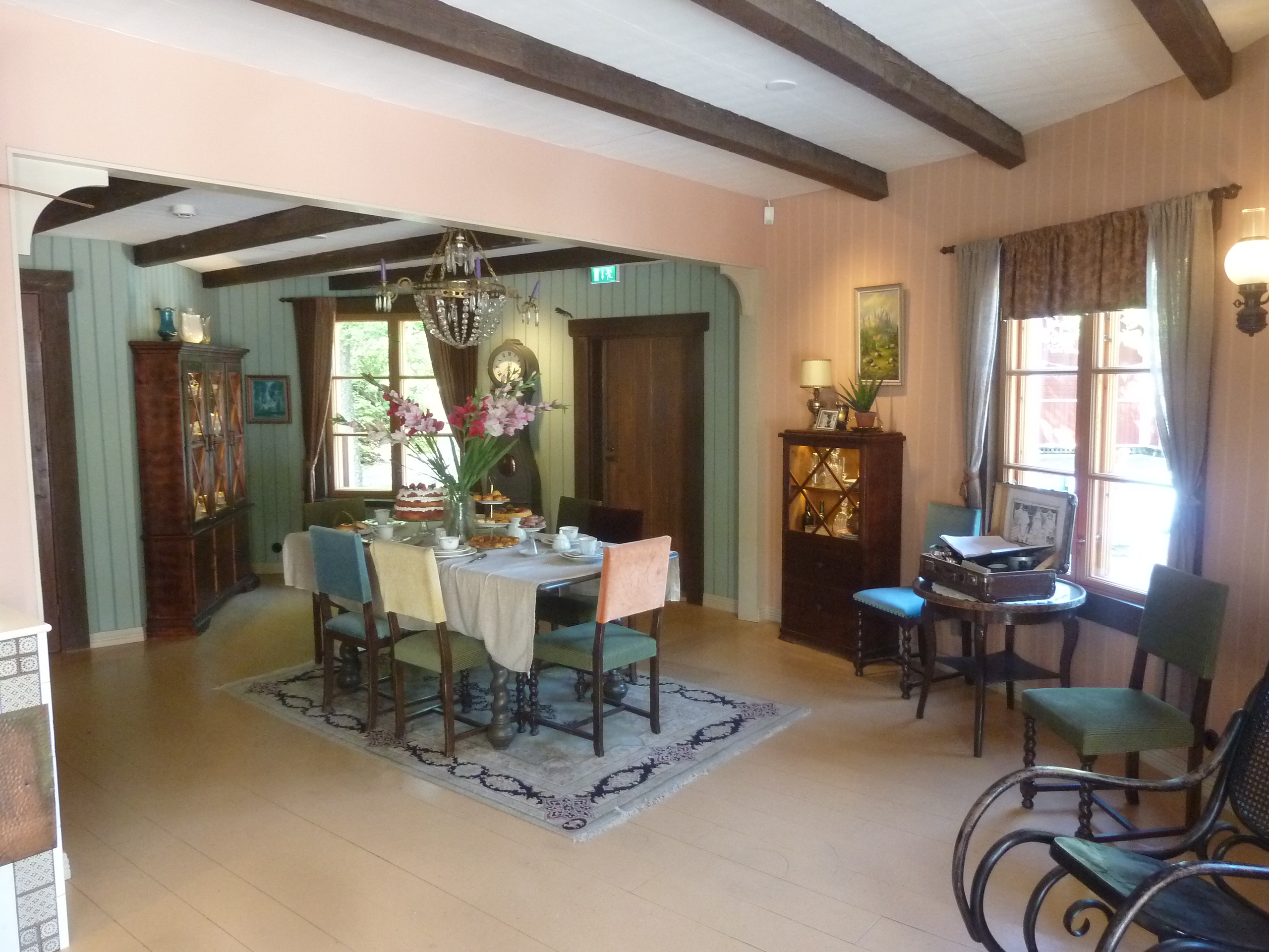 Inside the Moominhouse, Moominworld, Finland